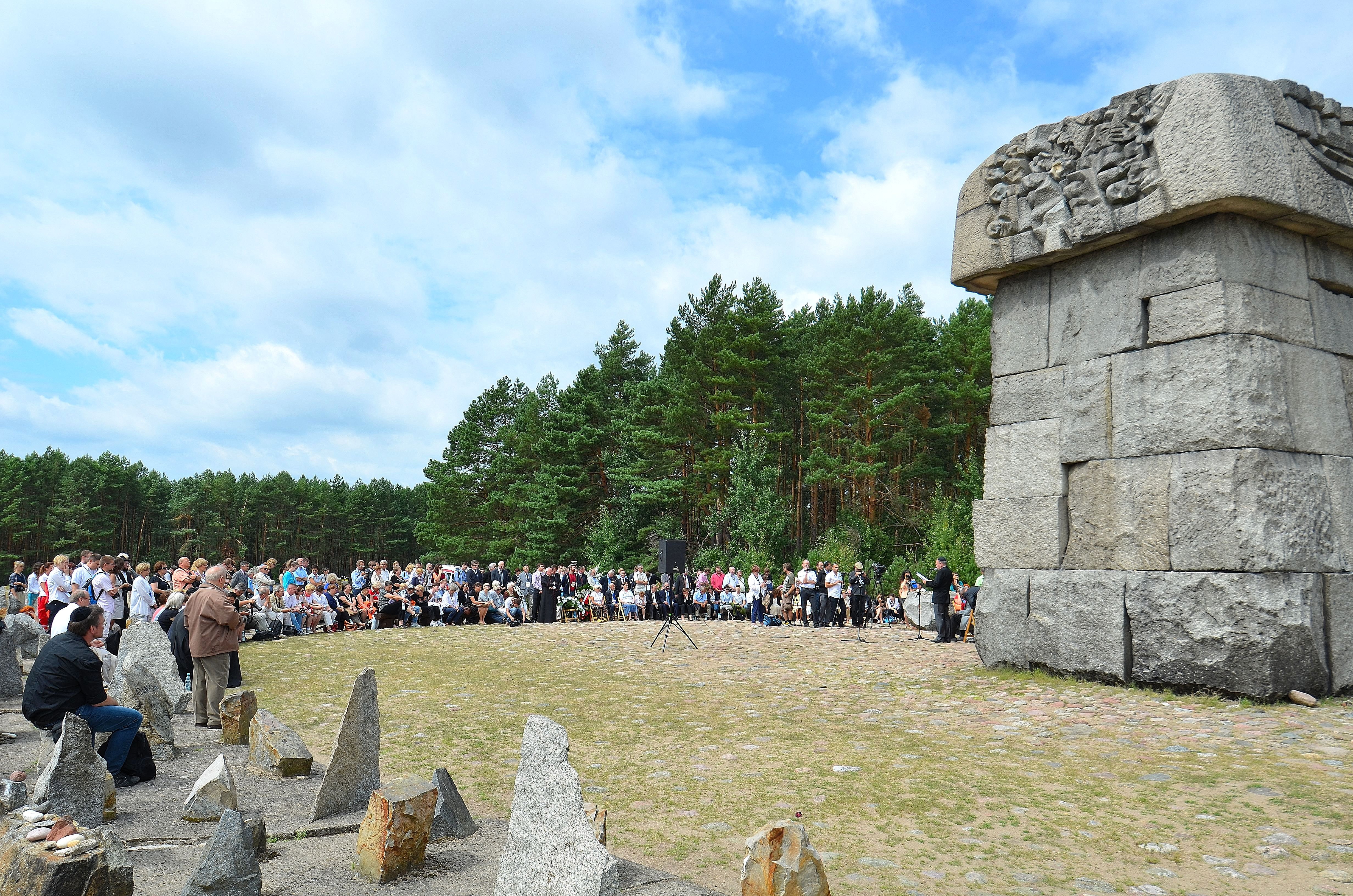 Commemorative ceremony to mark 70th anniversary of the revolt in Treblinka death camp at Treblinka